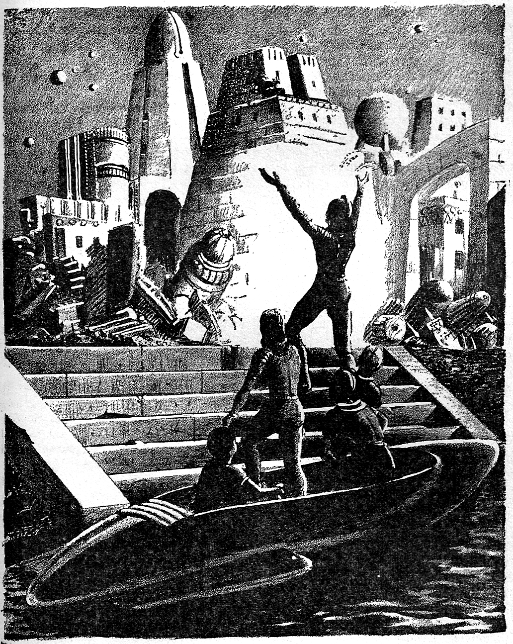 Interior illustration from page 95 of the Summer 1946 issue of Planet Stories. Artist is Alexander Leydenfrost. Copyright holder was either Leydenfrost, or more likely Fiction House, who published the magazine.